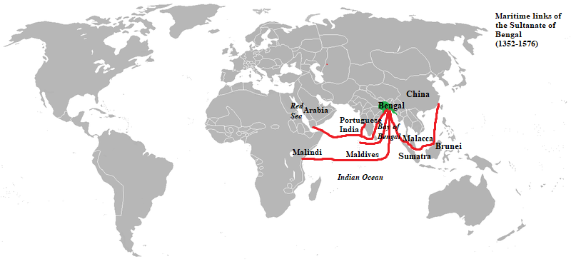 Page 130 of The Cambridge Economic History of India: Volume 1, C.1200-c.1750 states "A vessel from Bengal, probably owned by the Sultan of Bengal, could accommodate three separate tribute missions- from Bengal, Sumatra and Brunei- and was evidently the only vessel plying in those decades in south-east Asian waters and was equal to such a task". Page 185 of the Economic History of Medieval India, 1200-1500 states "large number of Bengali merchants at Malacca" Page 14 of the Culture and Customs of Kenya states "Malindi ambassadors at the court of the king of Bengal" Other sources include Chinese accounts (Ma Huan) and European accounts (Tom Pires, Duarte Barbosa and Ludovico di Varthema). The sultanate's maritime links with China, the Middle East and Portuguese India are well documented. With the Maldives, Bengal exported rice and imported cowry shells.